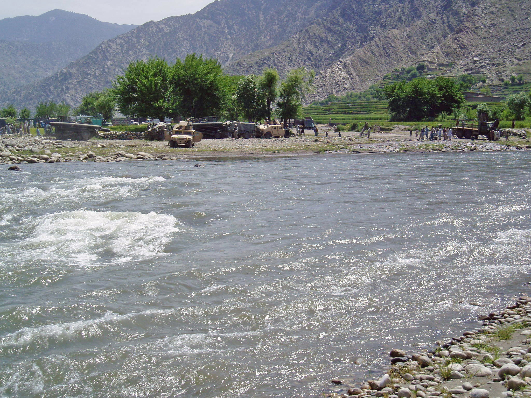 Afghan contractors and soldiers from Company A, 27th Engineer Battalion, Task Force Spartan, conduct an assessment of the Pech River Valley area April 19. Photo by 1st Lt. Luke Haravitch, USA